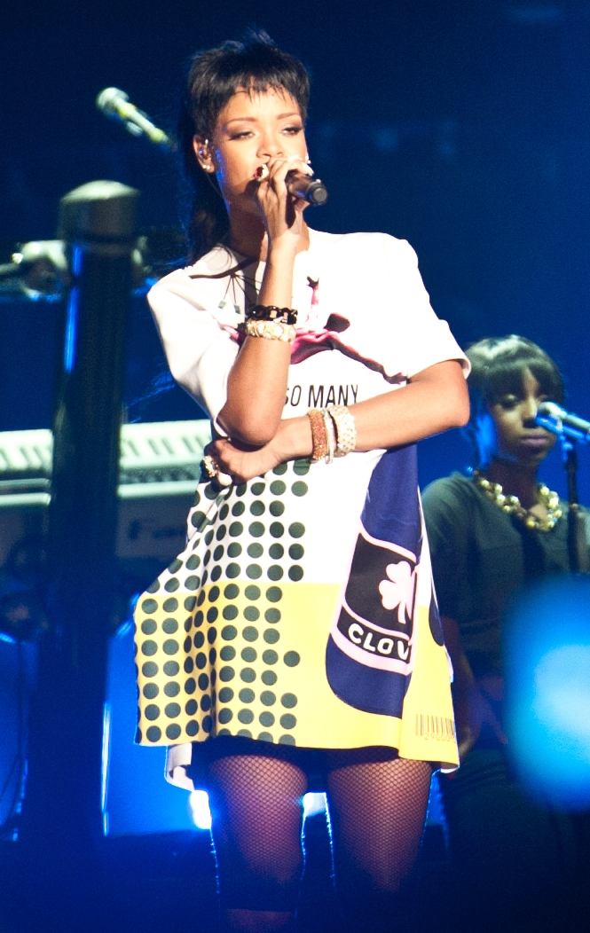 Rihanna performing in Singapore.